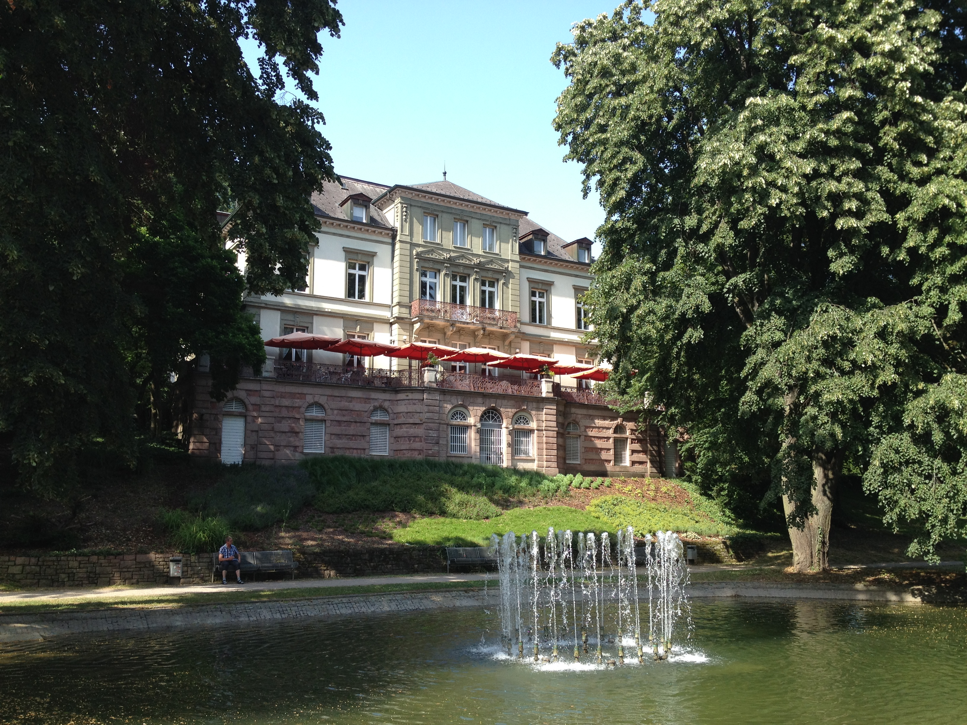 Exterior of Villa Berberich in Bad Säckingen, southwest Baden, Germany.